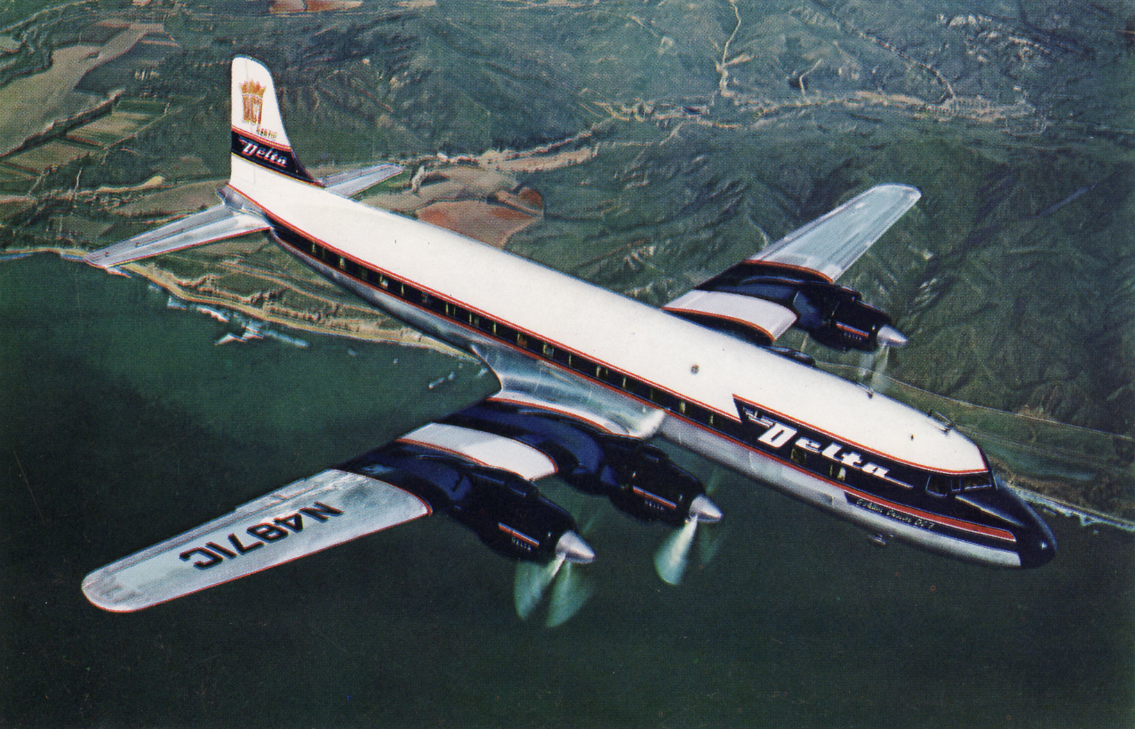 Postcard image of Douglas DC-7 in Delta Air Lines livery.